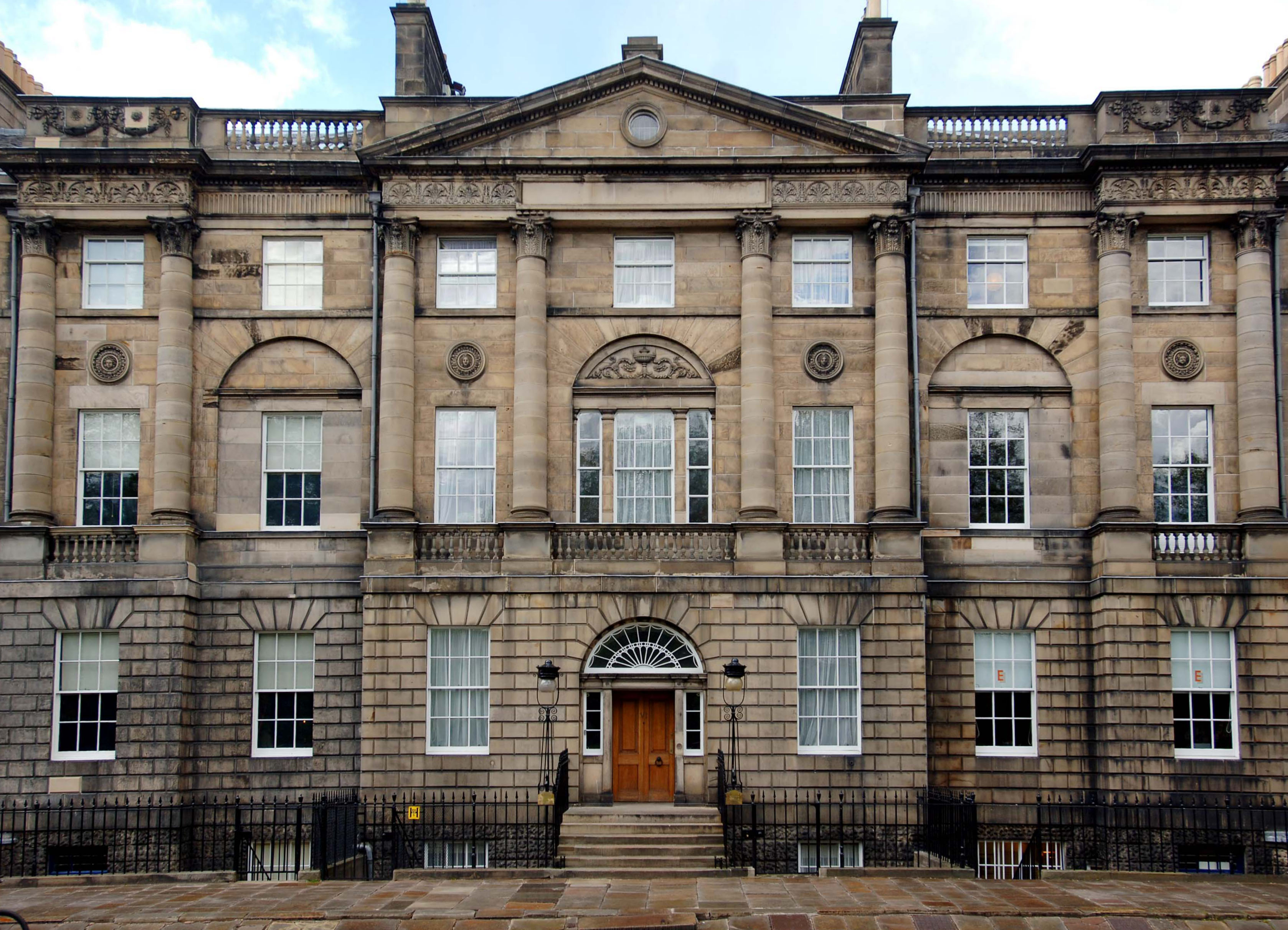 Bute House is the official residence of the First Minister of Scotland.